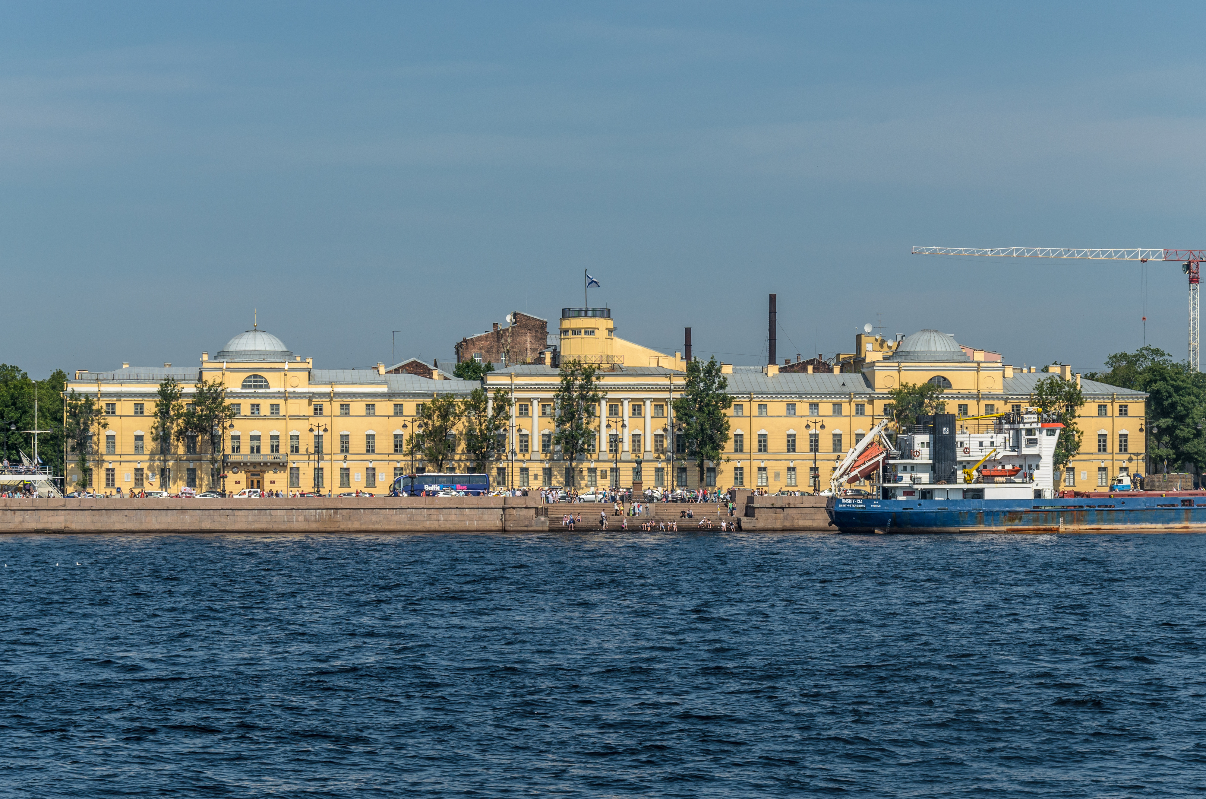 Peter the Great Naval Institute of Saint Petersburg